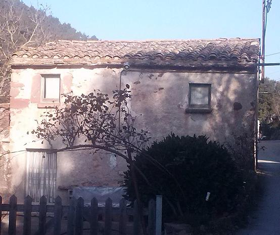 Can Sant -Tagamanent- (Catalonia)